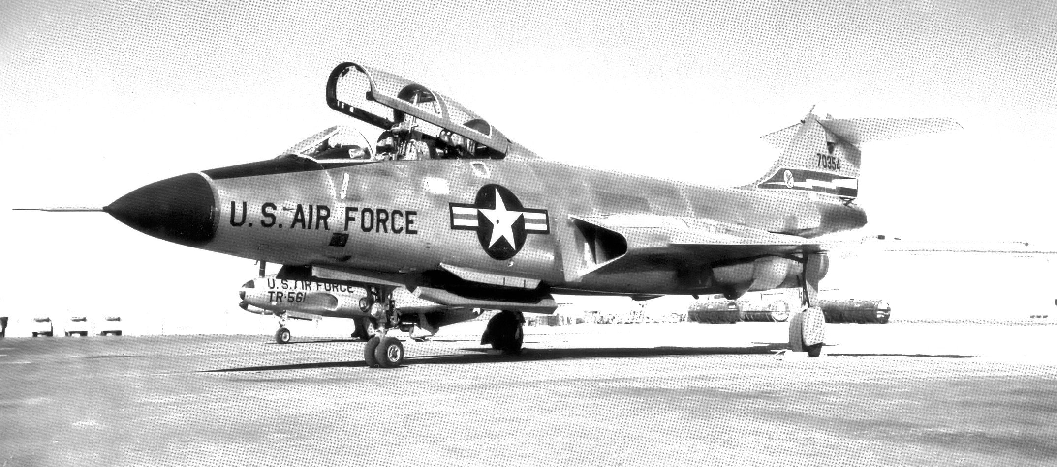 444th Fighter-Interceptor Squadron McDonnell F-101B-90-MC Voodoo 57-354 Charleston AFB, South Carolina September 1962 Aircraft later sold to Canadian Armed Forces as 101030 in 1970/71. Now on display at CFB Comox, British Columbia as 101030.